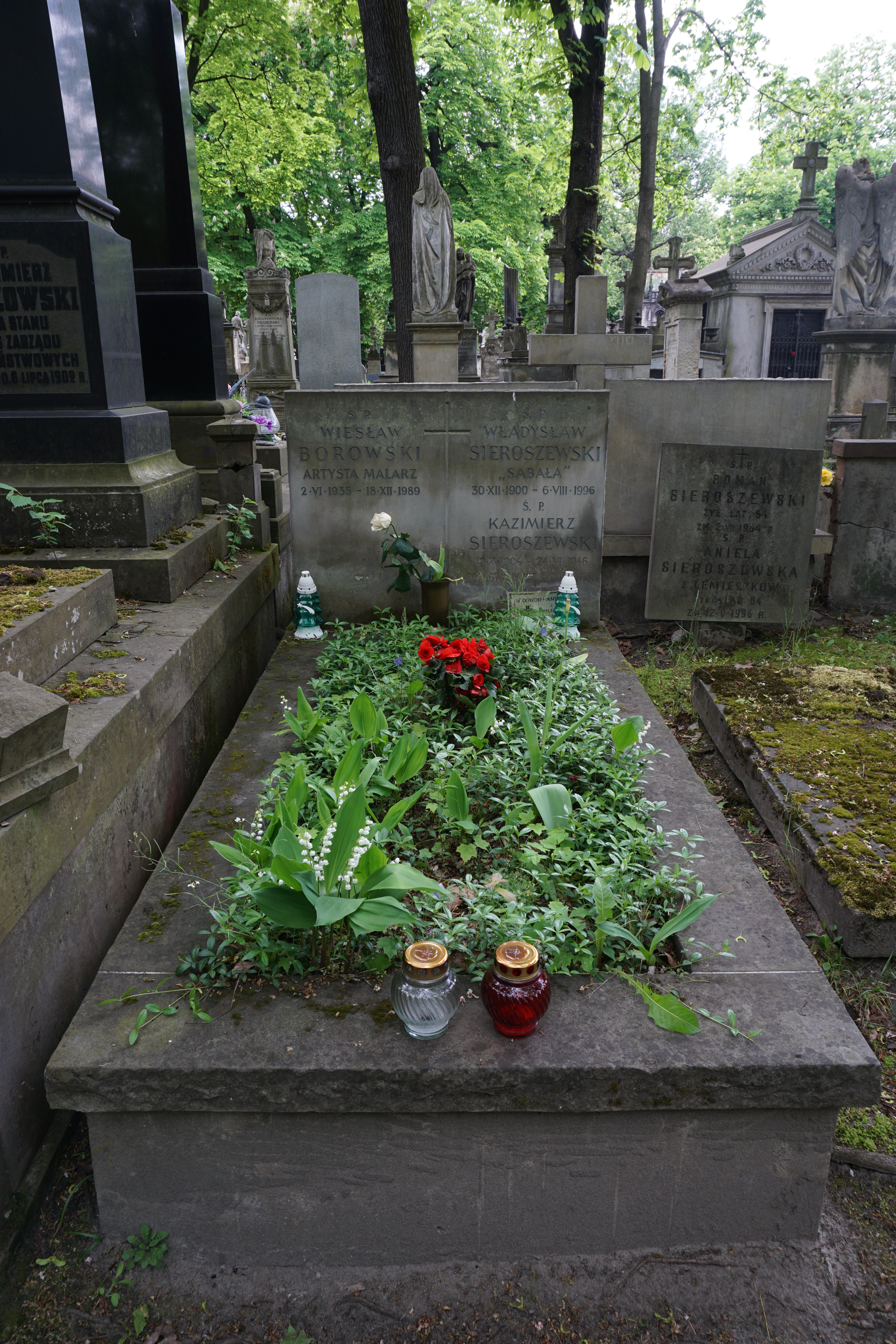 The grave of Władysław Sieroszewski at the Powązki Cemetery (section 19, row 1, grave 17)